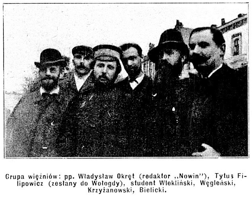 Group of political prisoners, Pawiak prison, Warsaw, 1906. The first from left is Władysław Okręt.